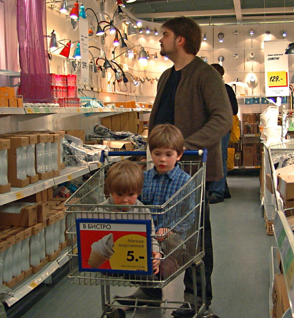 “Inside the IKEA shopping center”. Leningrad highway's IKEA shopping center on the eve of International Women's Day.